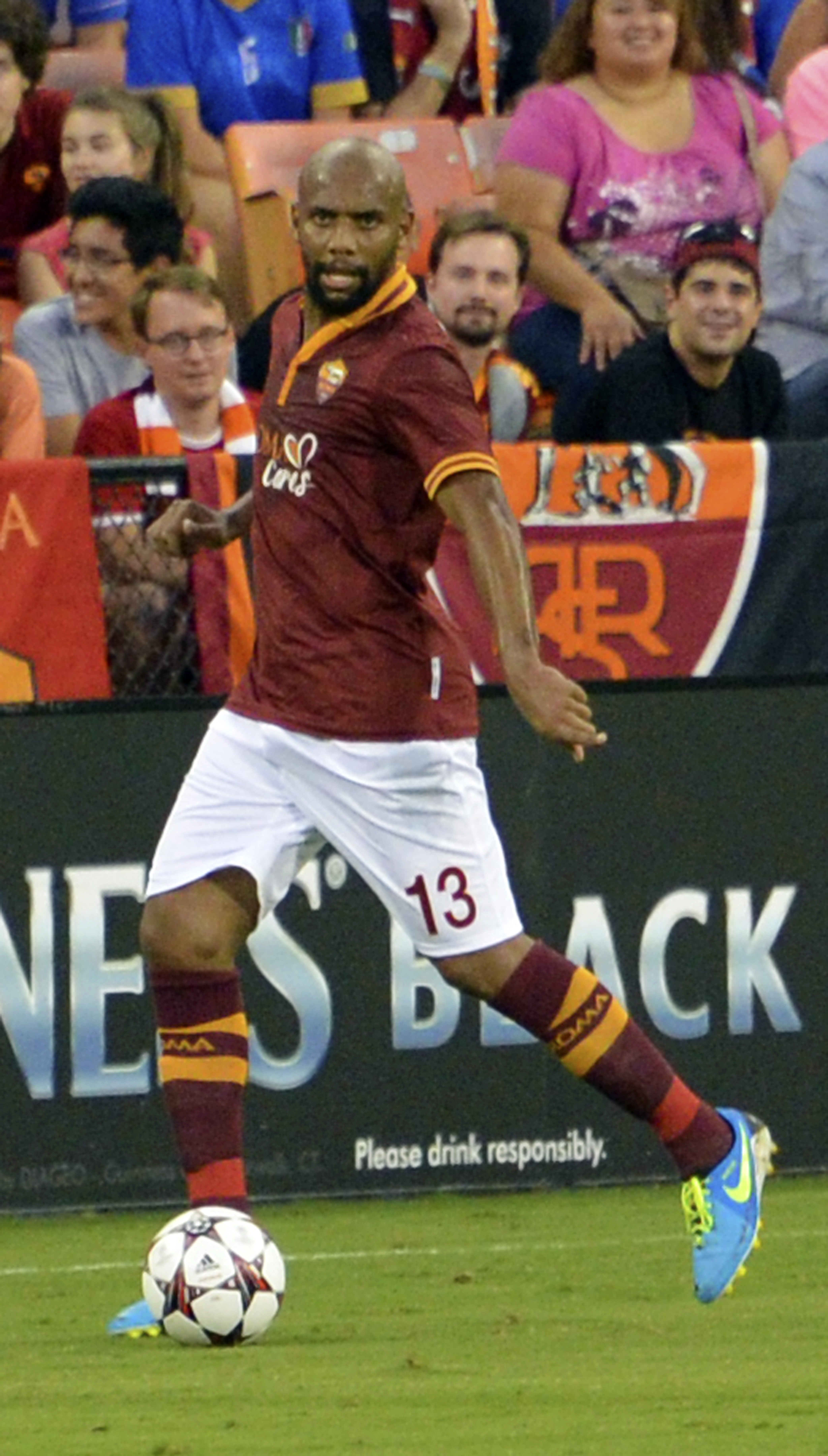 Maicon_Sisenando_Chelsea_vs_AS-Roma_10AUG2013.jpg